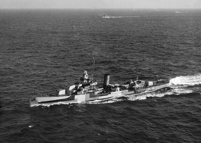 The U.S. Navy destroyer USS Somers (DD-381) underway in the Atlantic Ocean, circa 1944, with several destroyer escorts visible in the distance. Her camouflage is Measure 32, Design 3D. Note the HF/DF mast aft.